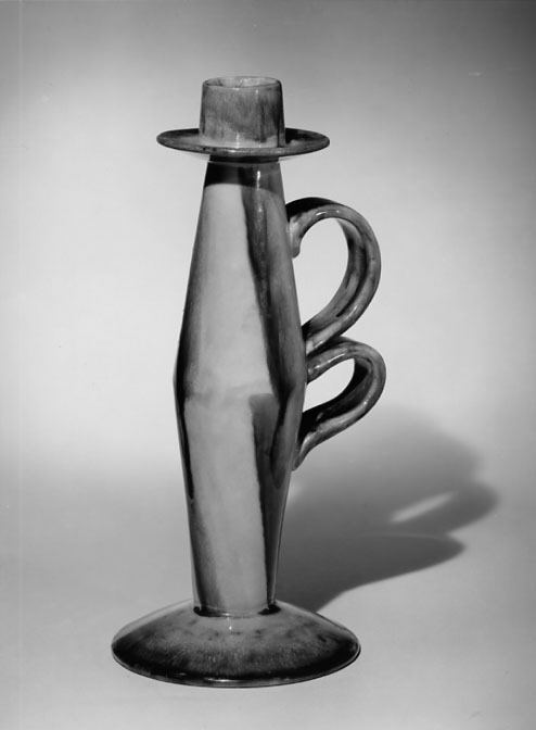 Candlestick; Ceramics-Pottery